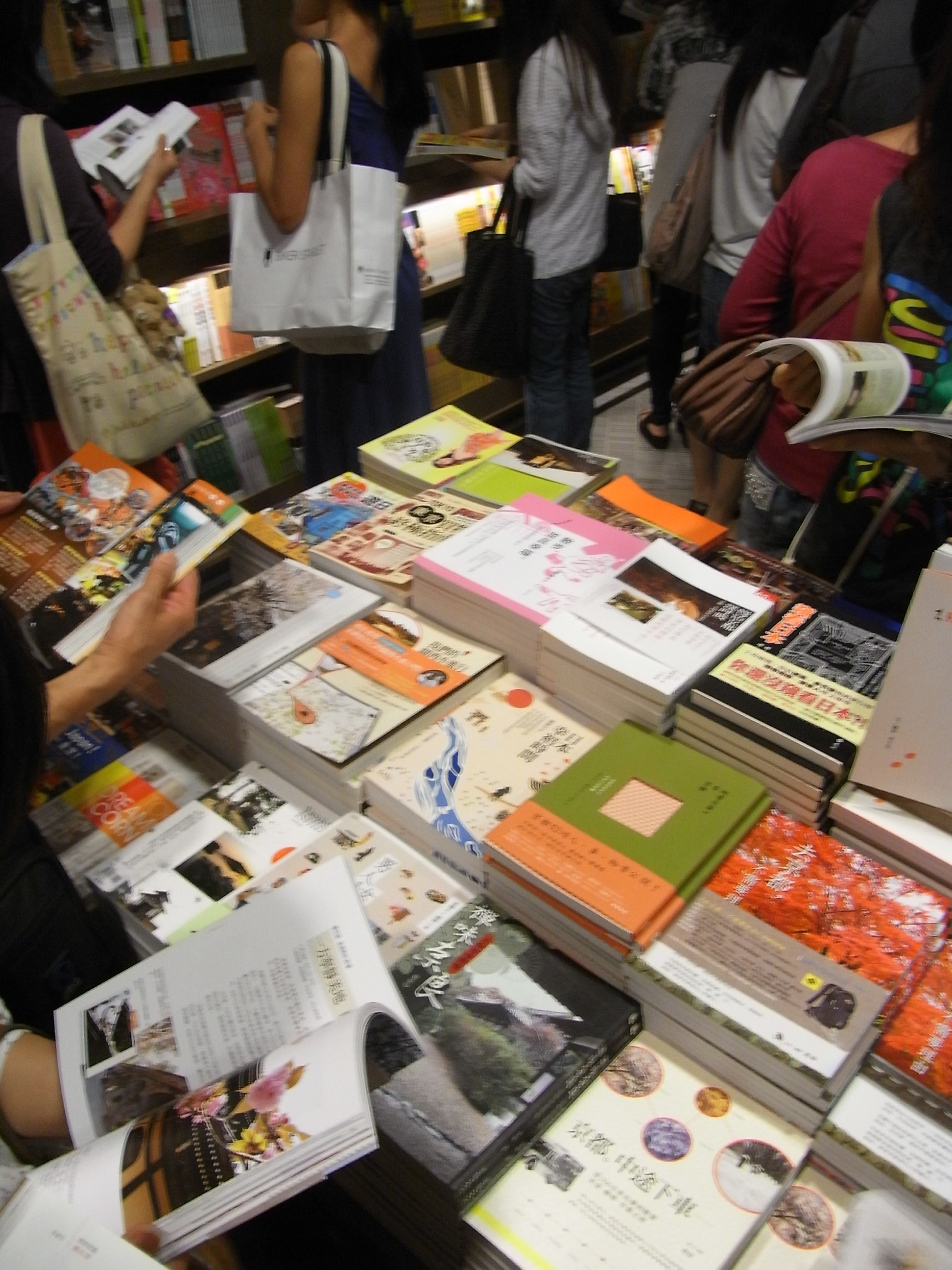 Hysan Place, Hong Kong